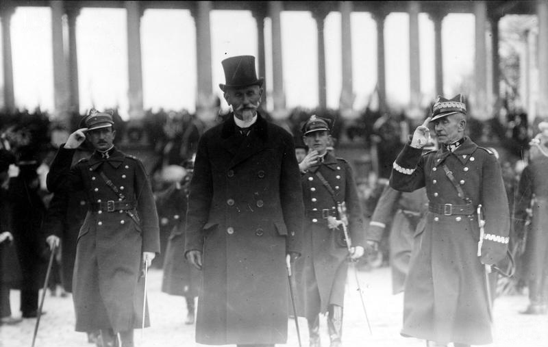 Polish President Stanisław Wojciechowski with general Mariusz Zaruski